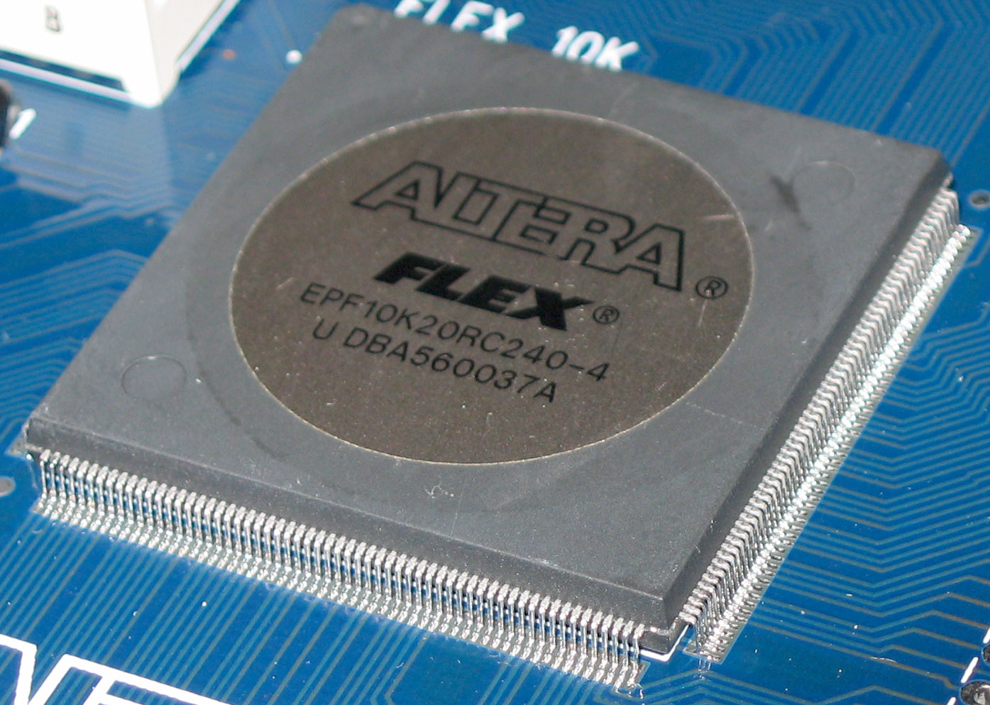 This is a an Altera Flex FPGA with 20,000 cells (a fairly old part). The device photographed is on a 'UP 1' university program board.